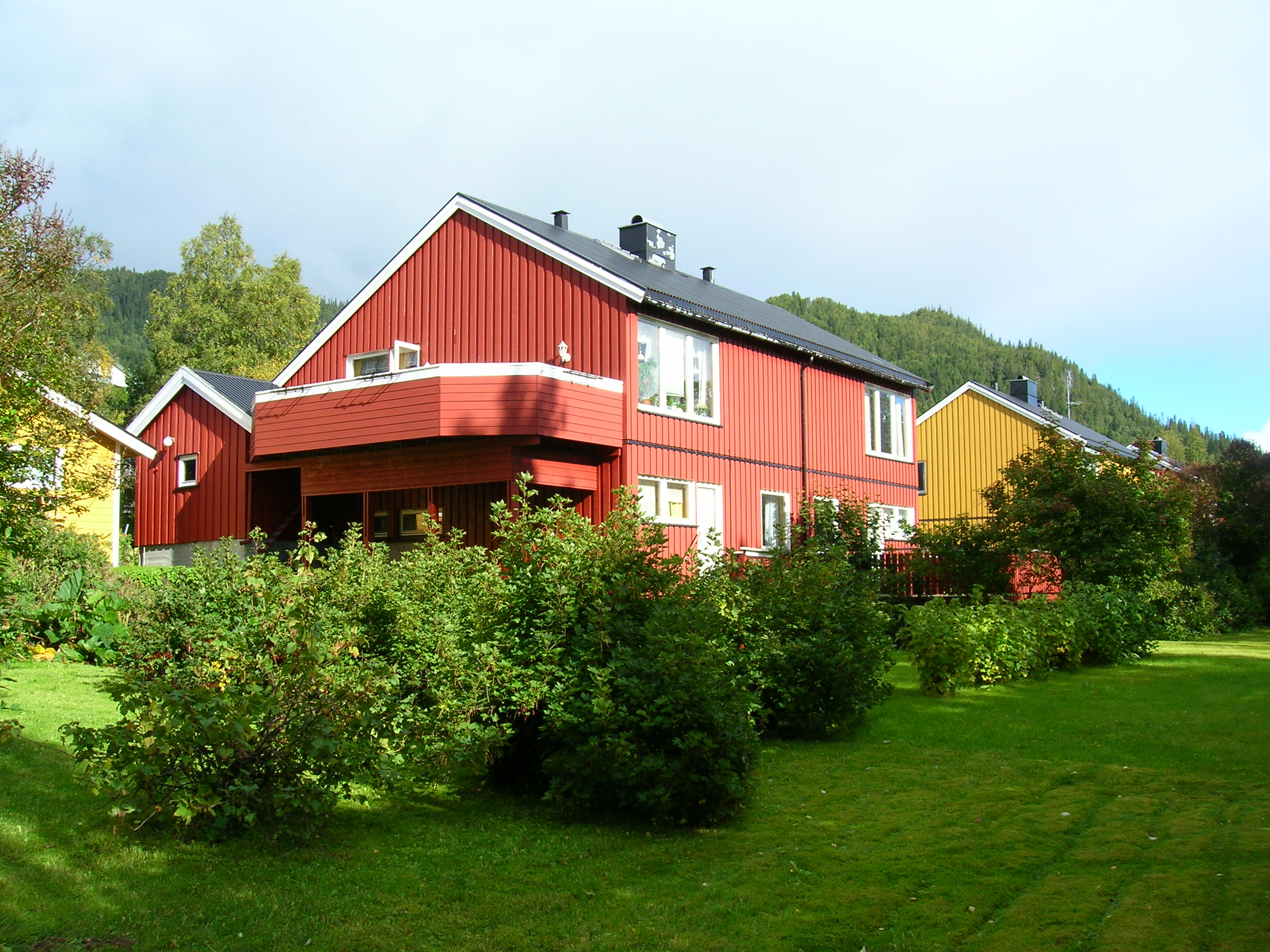 Lilleeng housing cooperative on Selfors, 4 km north of Mo i Rana, Rana municipality, county of Nordland, Norway, Photo 7 September, 2007 with a Nikon Coolpix 5600 5,1 Megapixel camera.